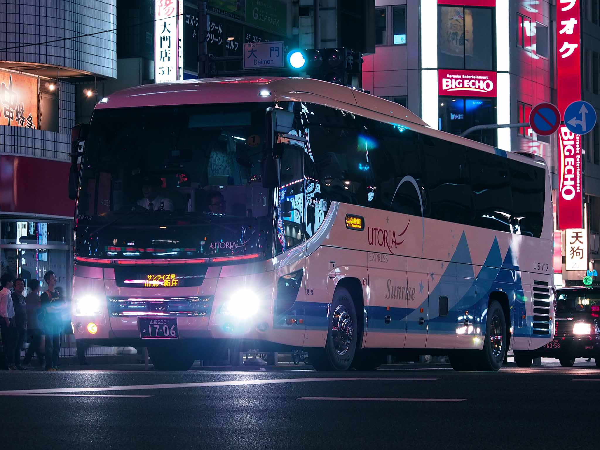 Yamako Bus "Tokyo Sunrise" bound for Shinjo, Yamagata, departs Hamamatsucho, Tokyo. Model: Hino Selega HD QRG-RU1ESBA License plate: YMY230 A1706